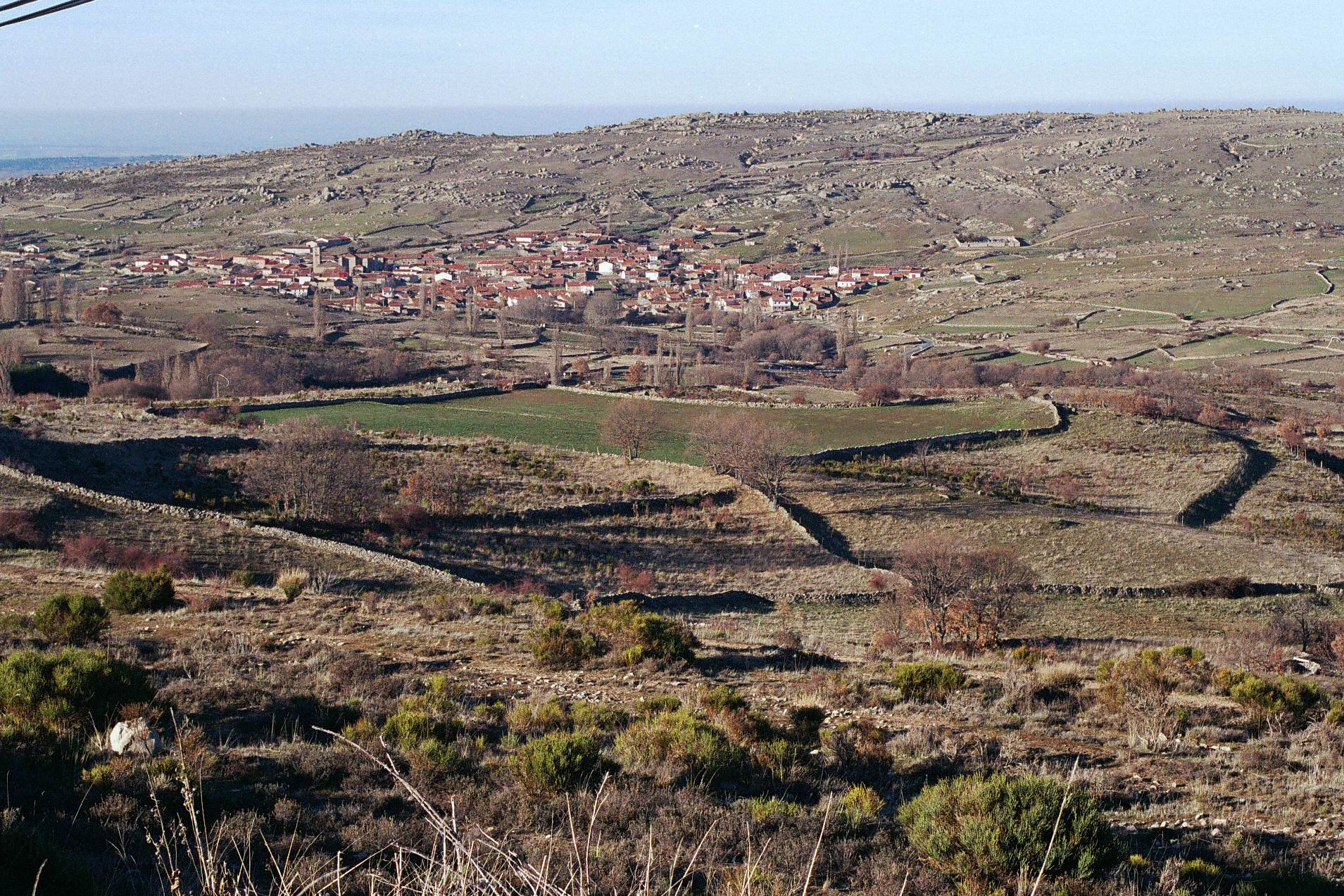 Panoramic, Vadillo de la Sierra, Ávila, Spain.